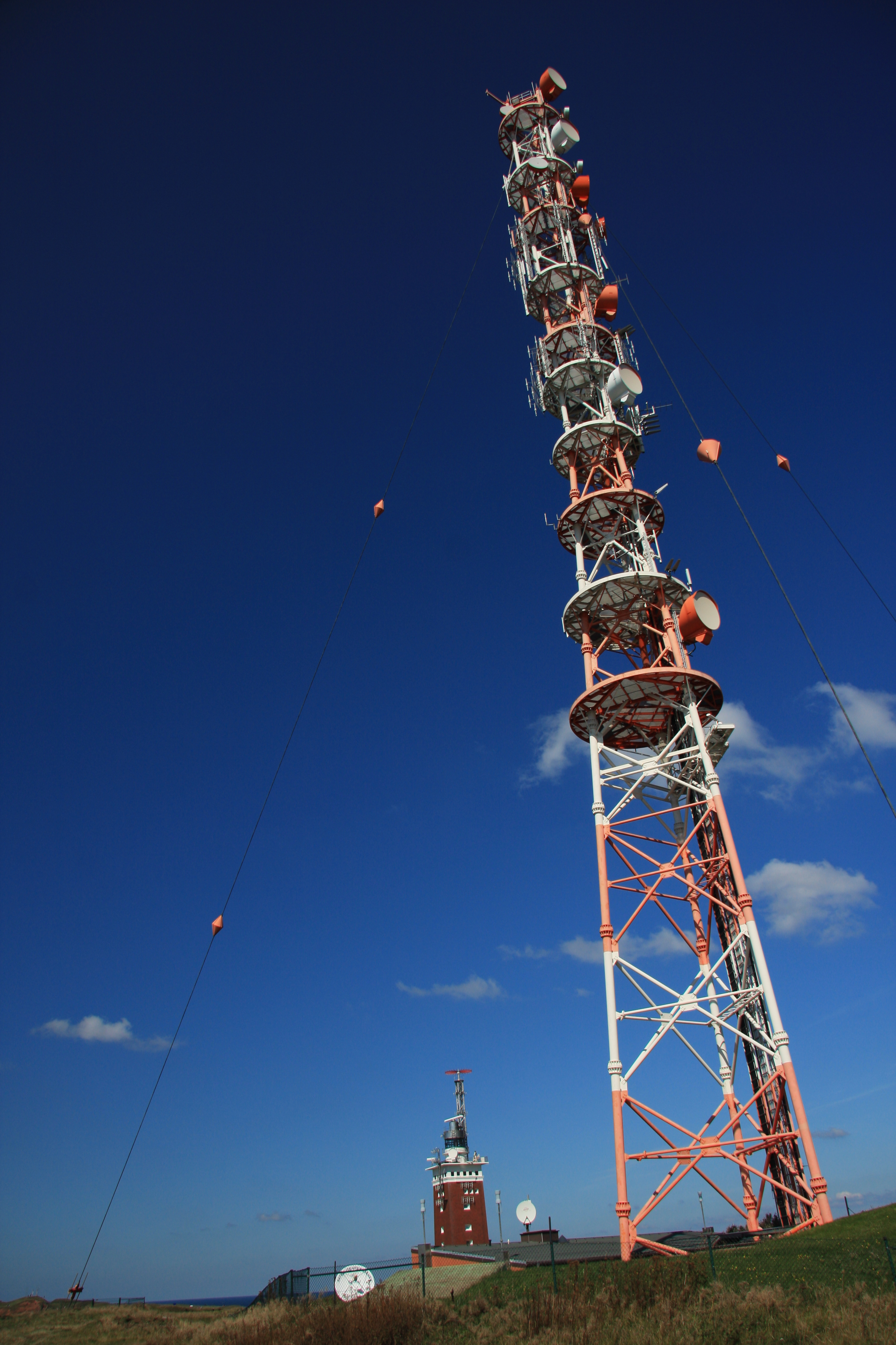 A Transmitter tower on Heligoland